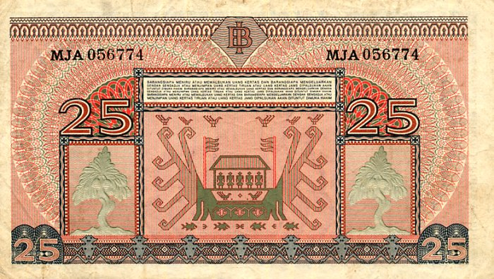 Indonesian currency issued in 1950 after Independence. Fair use for use on Indonesian rupiah. Scan of an Indonesian Rupiah banknote, for Banknotes of the Indonesian rupiah.